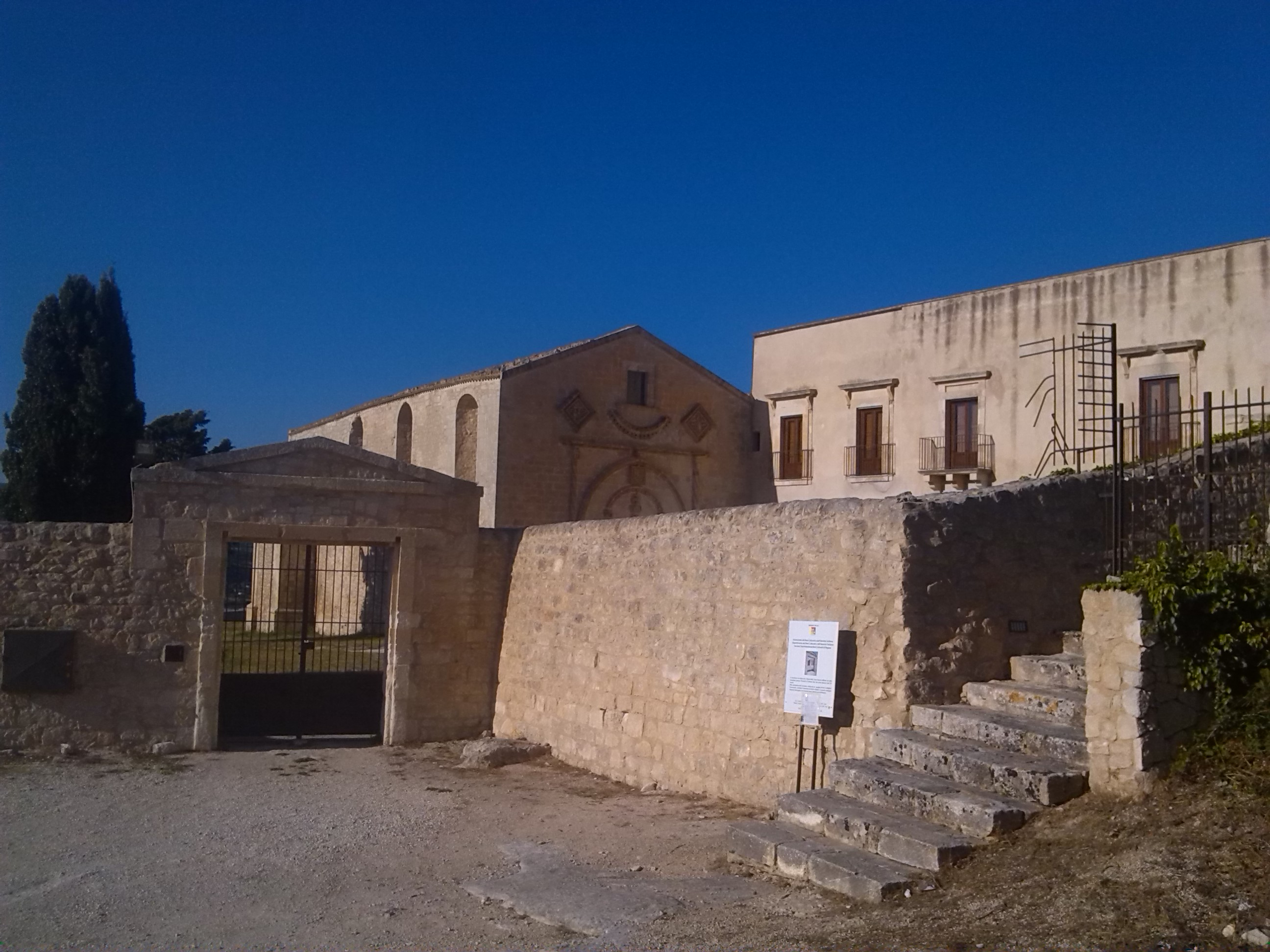 Convent and church built during XVI century